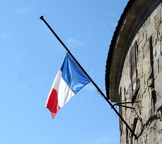 French Flag at half staff